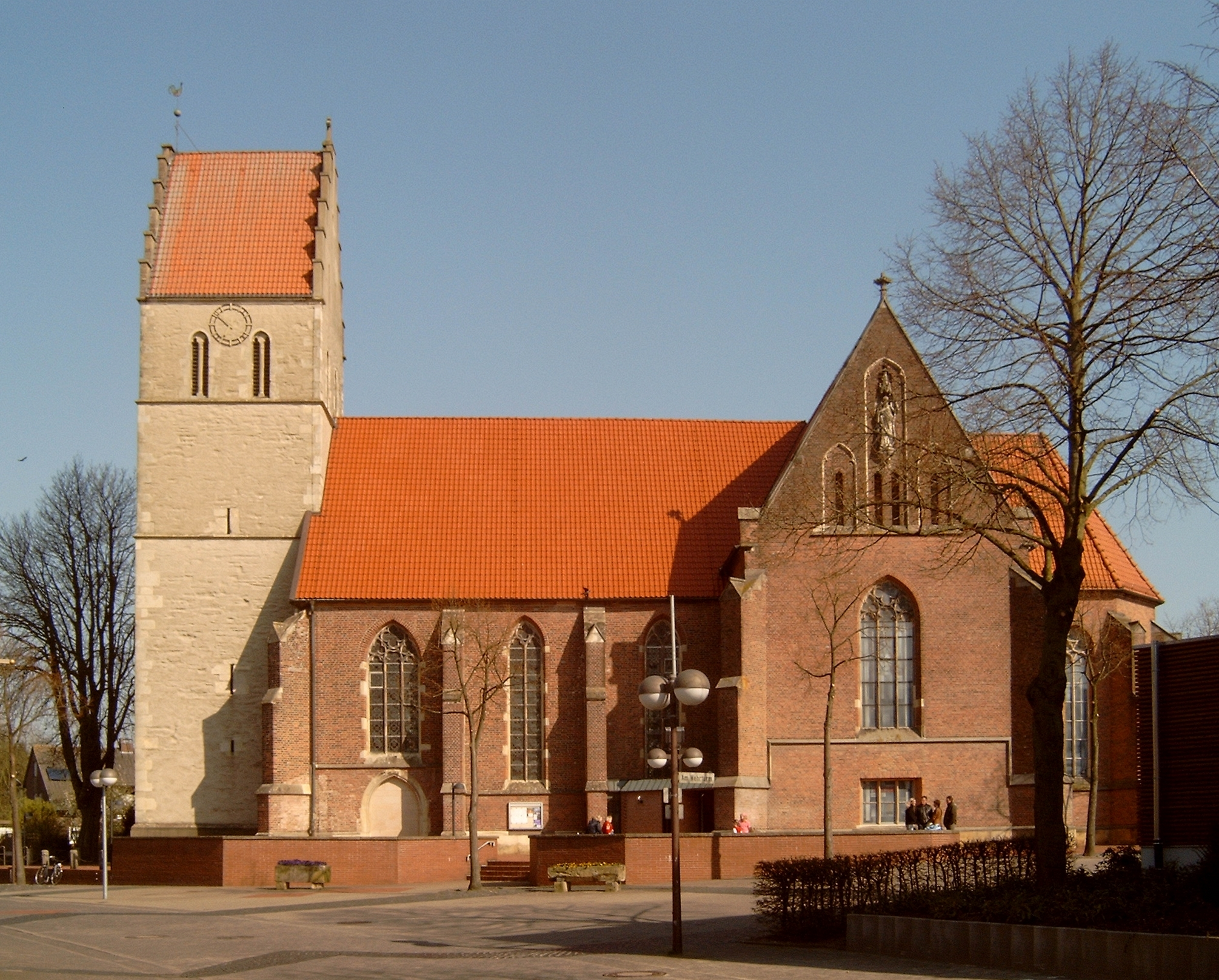 Wüllen, church